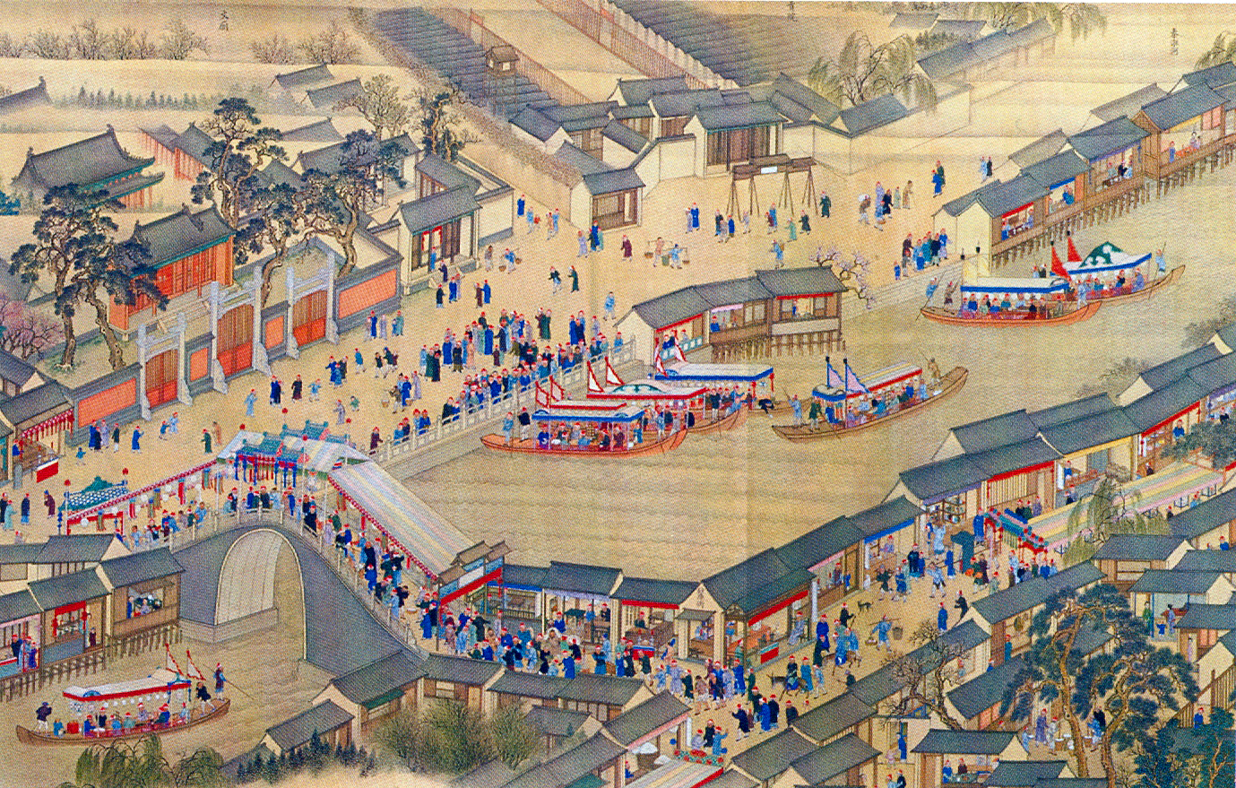 Detail of a painting commemorating the Kangxi Emperor's second "southern tour" in 1689. The original painting (color on silk scroll; 67.8 cm x 2559.5 cm) is titled "Illustrated scroll on the Kangxi Emperor's Southern Tour" (康熙帝南巡圖卷).